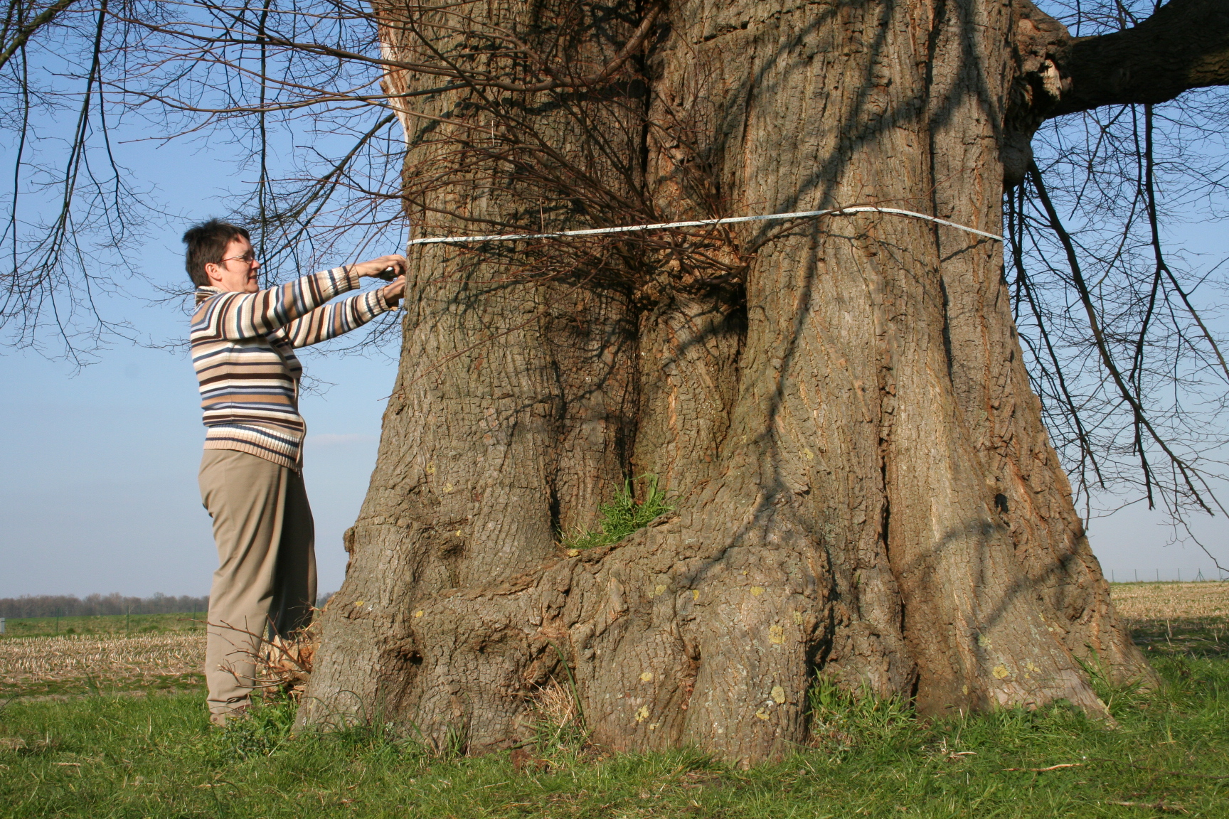 Small-Lieved Linden (Tilia cordata).